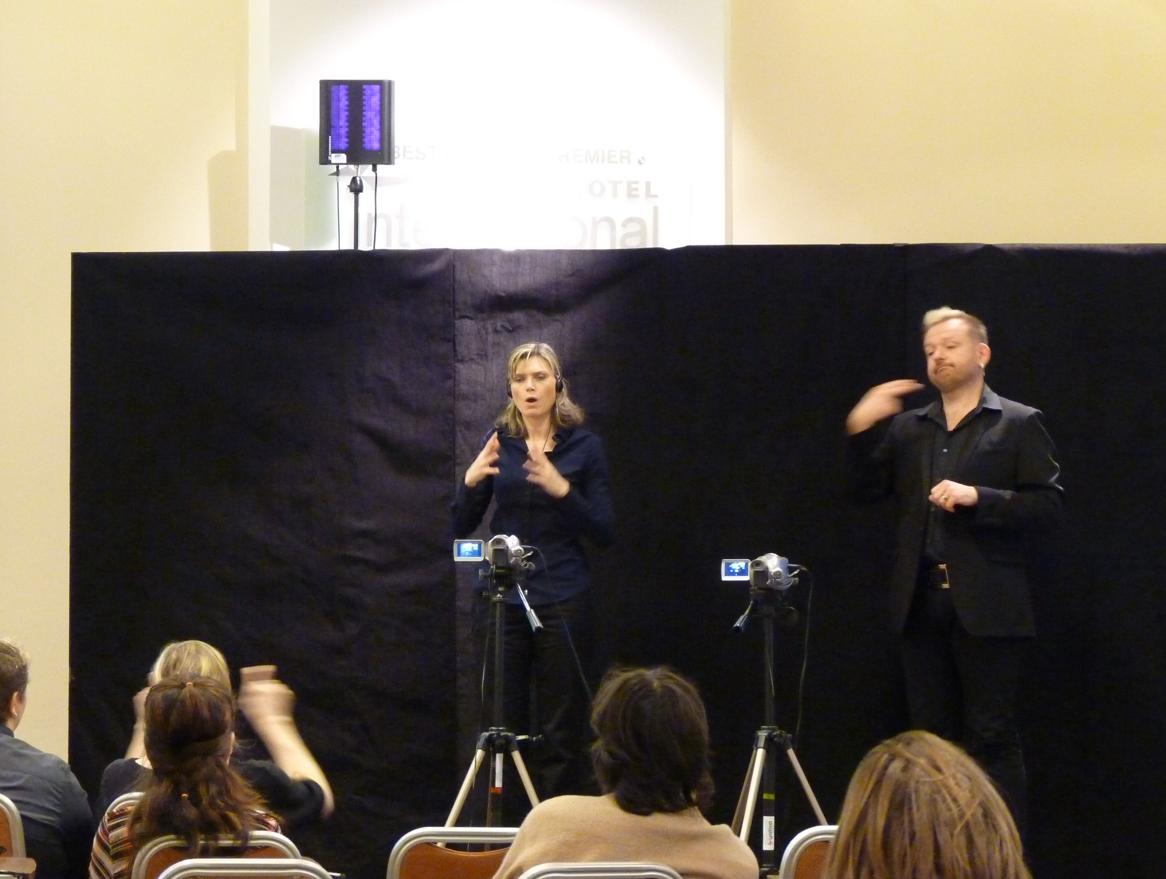 Interpretators to sign language. Universal Learning Design Conference, Brno, Czech Republic